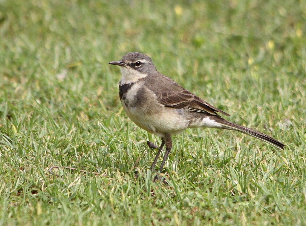 Cape wagtail